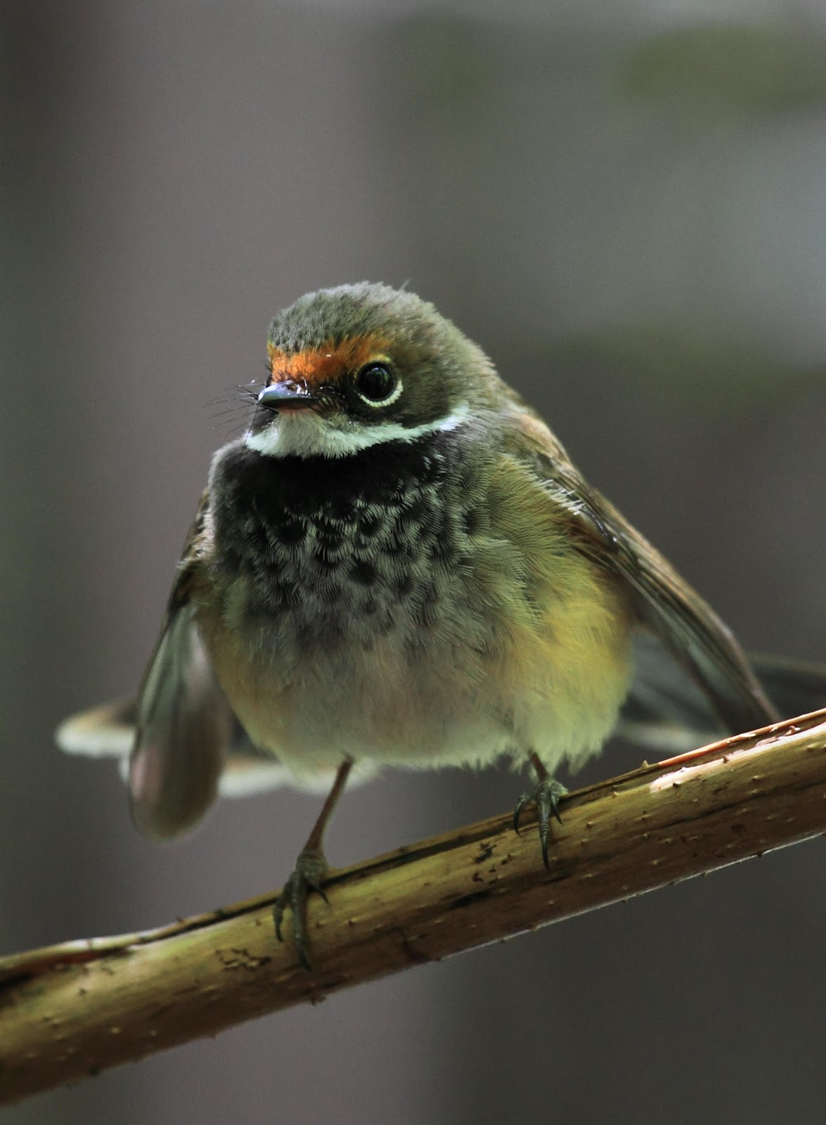 Rufous Fantail (Rhipidura rufifrons), Dandenong Ranges, Victoria, Australia